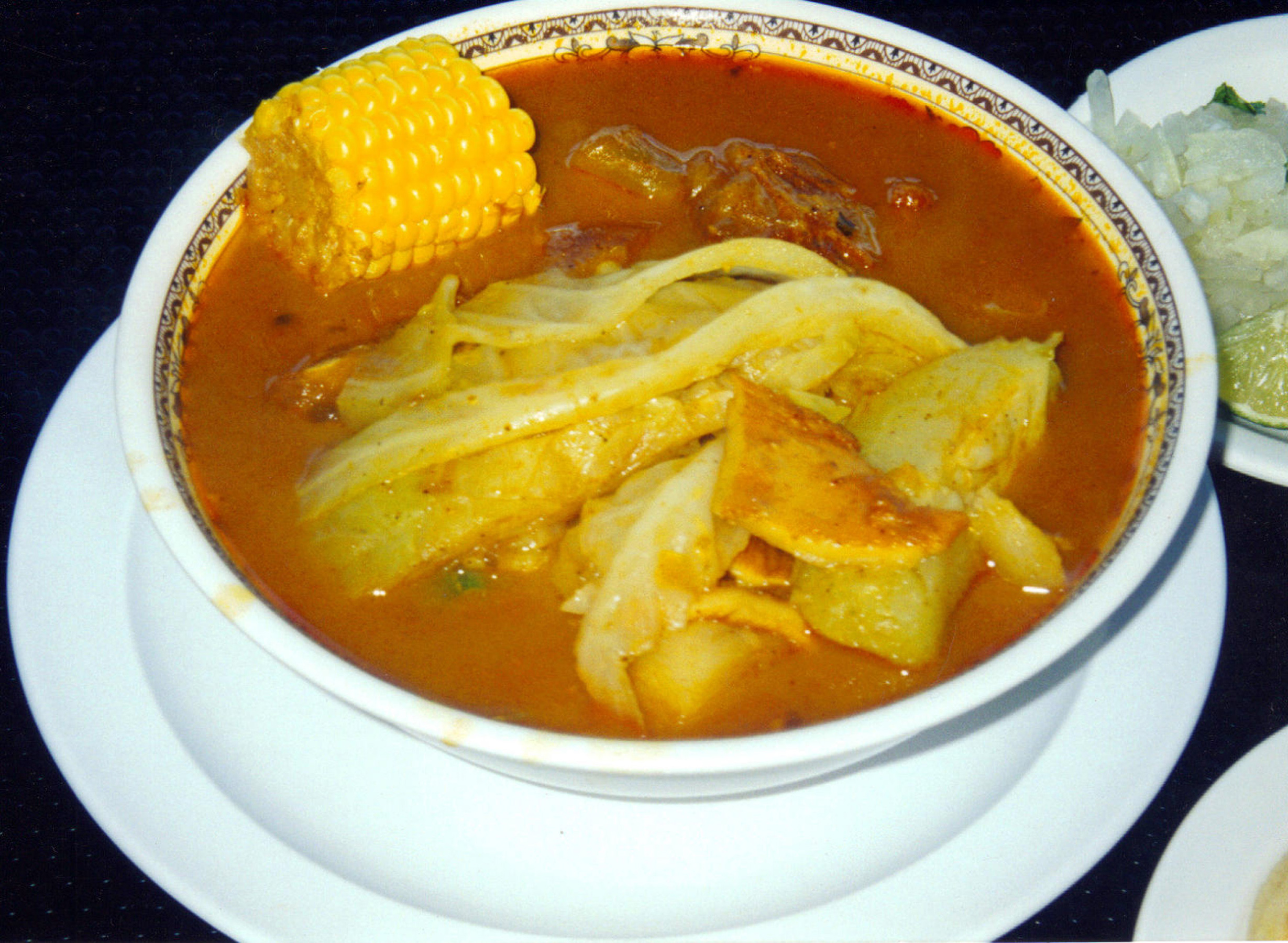 This is a typical salvadroean dish. A hearty soup made from cow’s feet, tripe, yuca (manioc root), guisayotes (chayotes), elotes (sweet corn), platanos (bananas), and ejotes (string beans). It may be seasoned with hojas de alcapate (Mexican coriander leaves) and flavored to taste with limón (lemon) or chile.